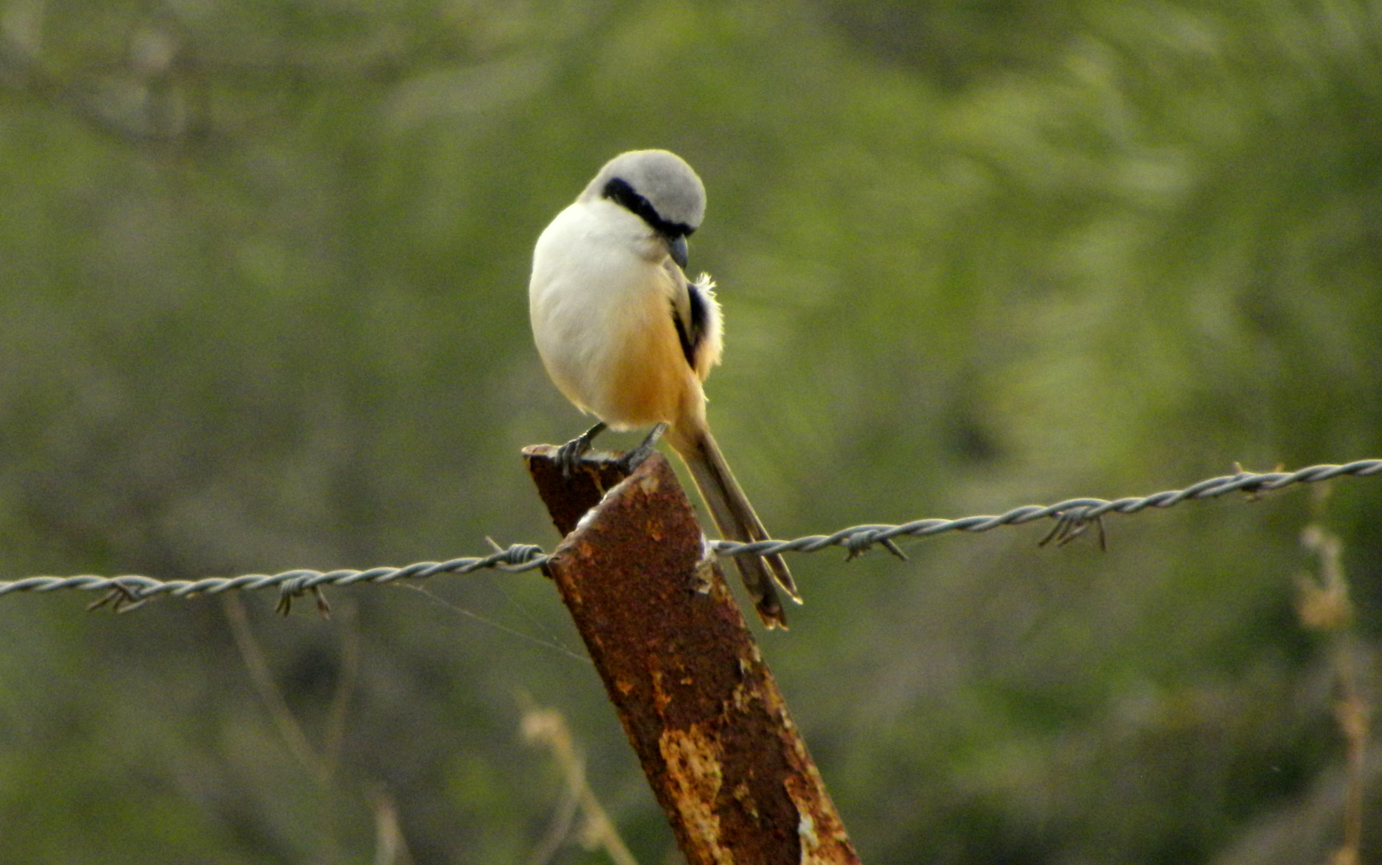 Lanius schach erythronotus, a long-tailed Shrike, on a post